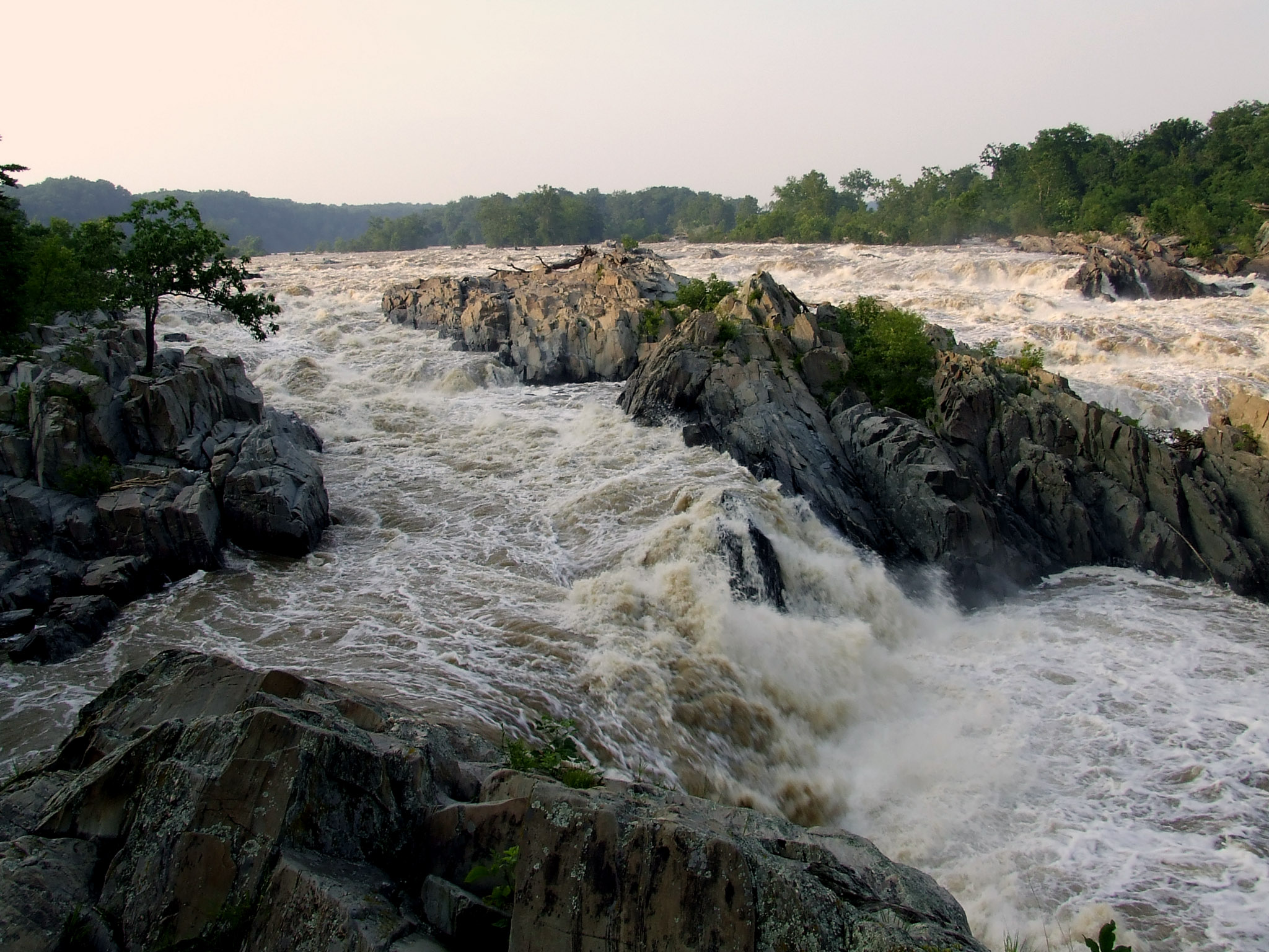 Great Falls Park, after flooding rains. Joshua Davis Photograhpy [1] Copyright 2006 Joshua Davis, some rights reserved.